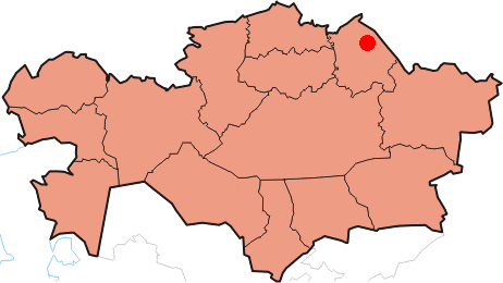 Location of the city of Pavlodar within Kazakhstan and oblysy Pavlodar Based upon Image:Kzk-zap.gif